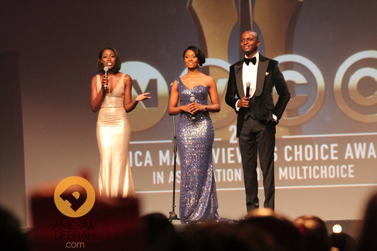 Osas, Vimbia and IK at the 2014 Africa Magic Viewers Choice Awards